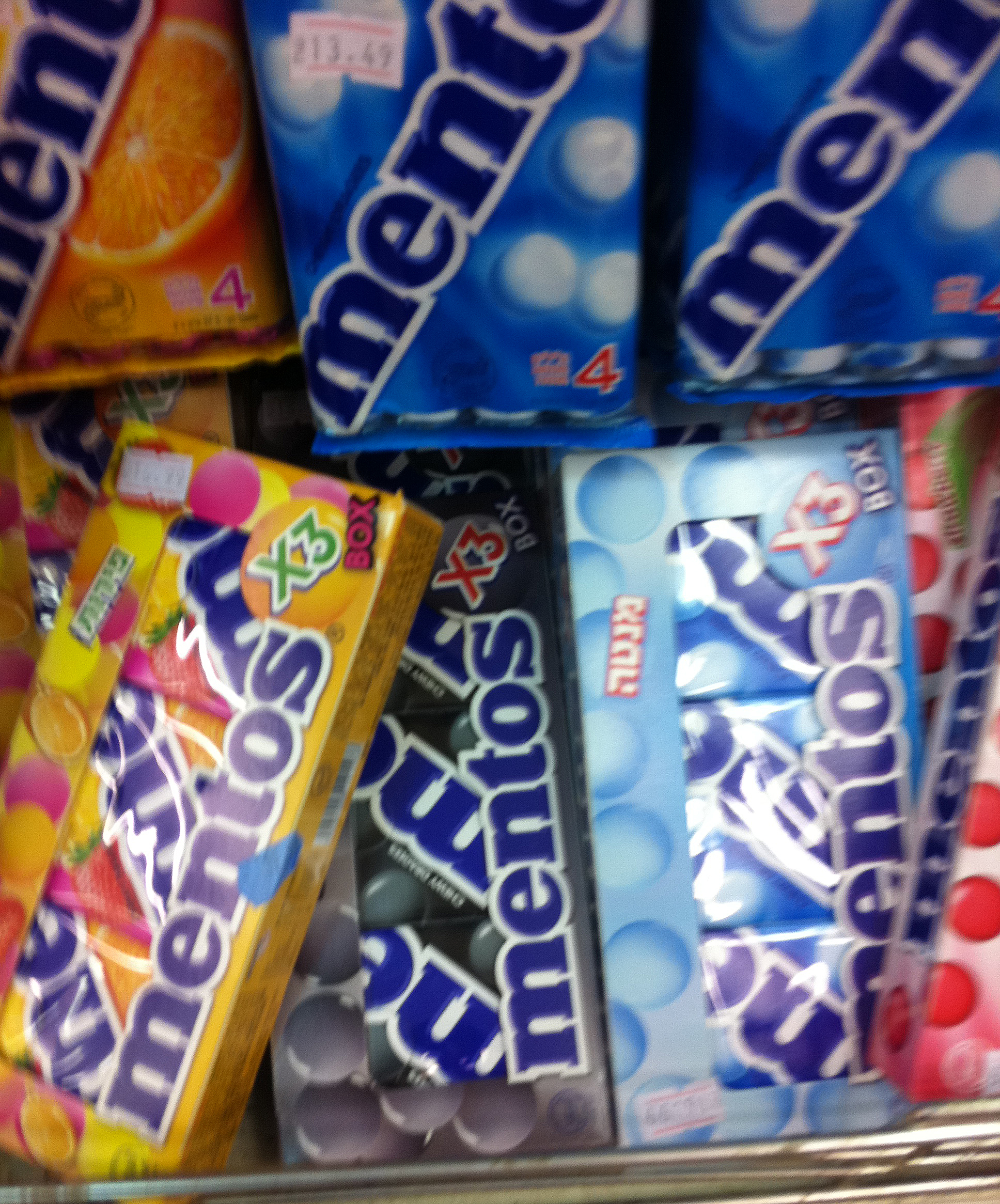 Mentos product range